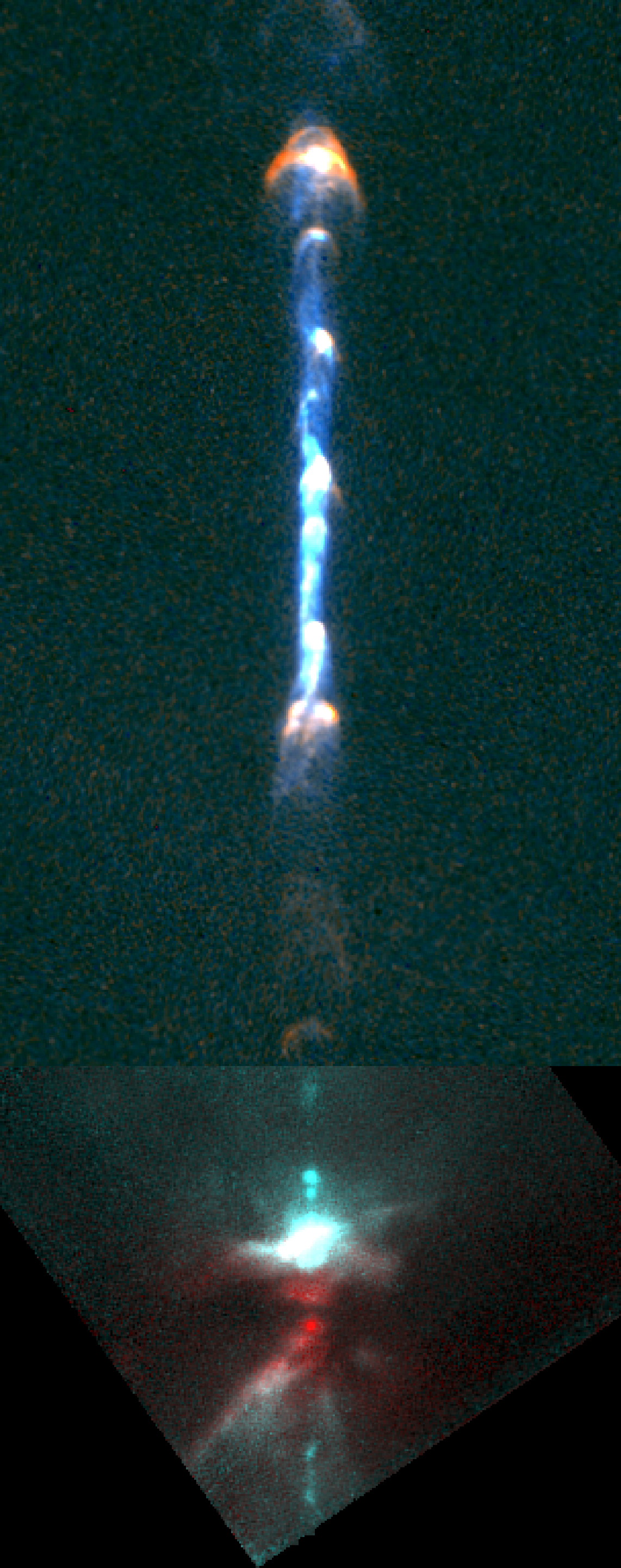 This composite image, made with two cameras aboard NASA's Hubble Space Telescope, shows a pair of 12 light-year-long jets of gas blasted into space from a young system of three stars. The jet is seen in visible light, and its dusty disk and stars are seen in infrared light. These stars are located near a huge torus, or donut, of gas and dust from which they formed. This torus is tilted edge-on and can be seen as a dark bar near the bottom of the picture. Apparently, a gravitational brawl among the stars occurred a few thousand years ago and kicked out one member (on the left edge of the bright blob above the disk). As a result, the two other stars were joined together as a tight binary pair and flew off in the opposite direction, and appear as a red blob below the disk. The huge jet comes from one of the stars in this tight binary pair. The star spews out streams of gas in opposite directions, like water from a garden hose. It is not a smooth flow, but rather happens episodically, creating lumps of gas that fly across space at over one million miles per hour. These gaseous cannonballs catch up with and "rear-end" slower moving blobs, creating a pattern that resembles a string of Christmas lights embedded in the jet. The visible-light image was taken with Hubble's Wide Field Planetary Camera 2 in Nov. 1998 and the infrared image by Hubble's Near Infrared Camera and Multi-Object Spectrometer in Mar. 1998. The disk and associated stars are embedded in a large dark cloud and are only visible at infrared wavelengths.